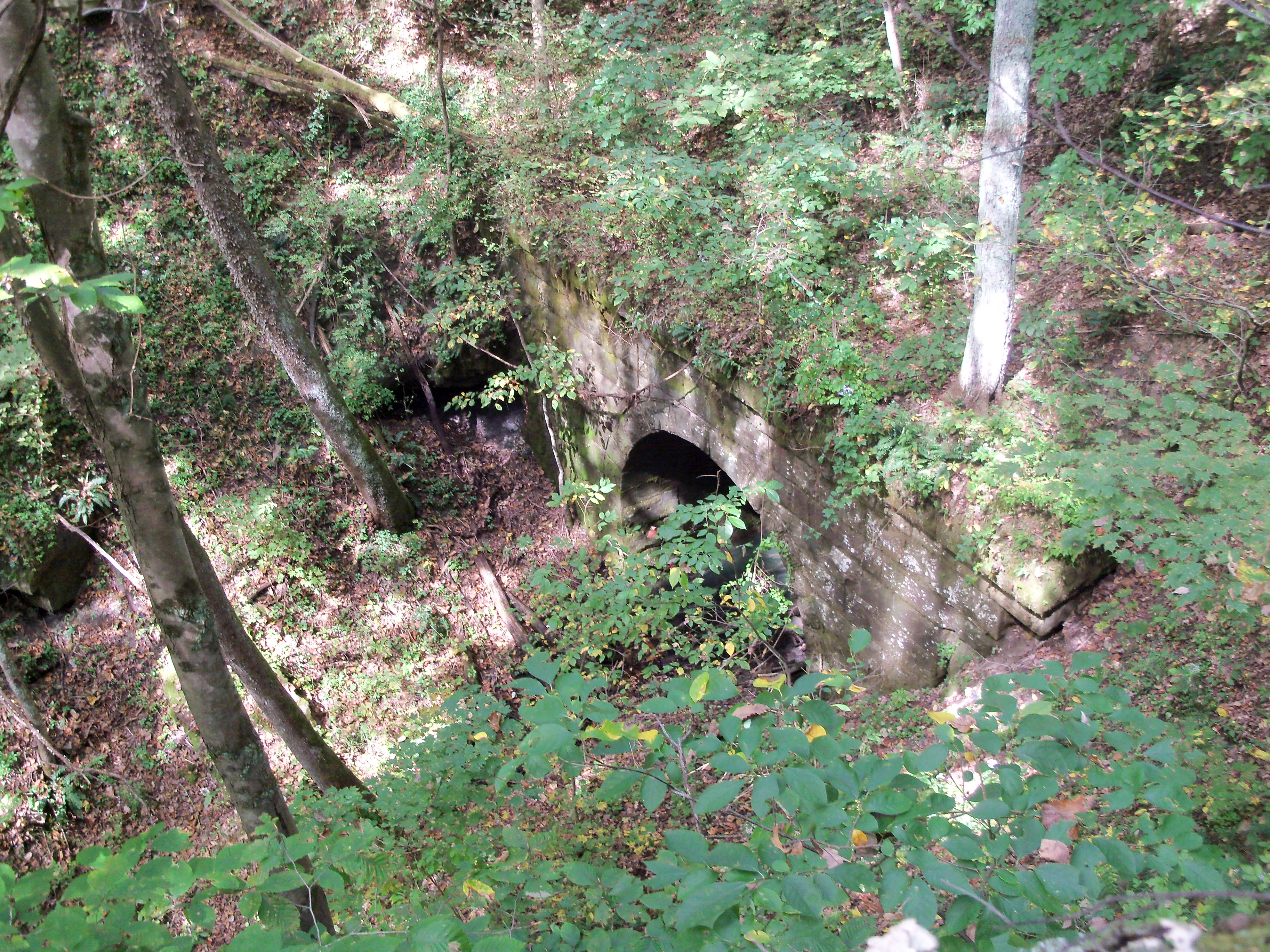 This 1500 foot long railroad tunnel was built in 1887 and abandoned in 1936 after a cave in. south entrance shown.